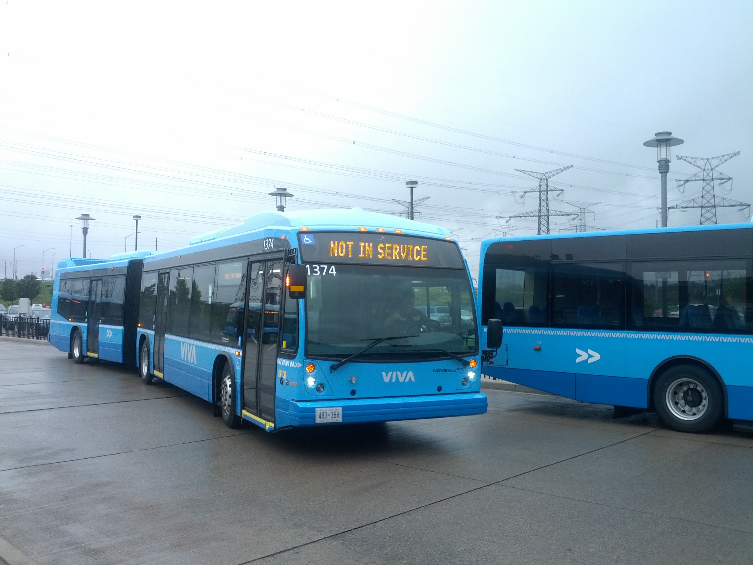 York Region Transit #1374